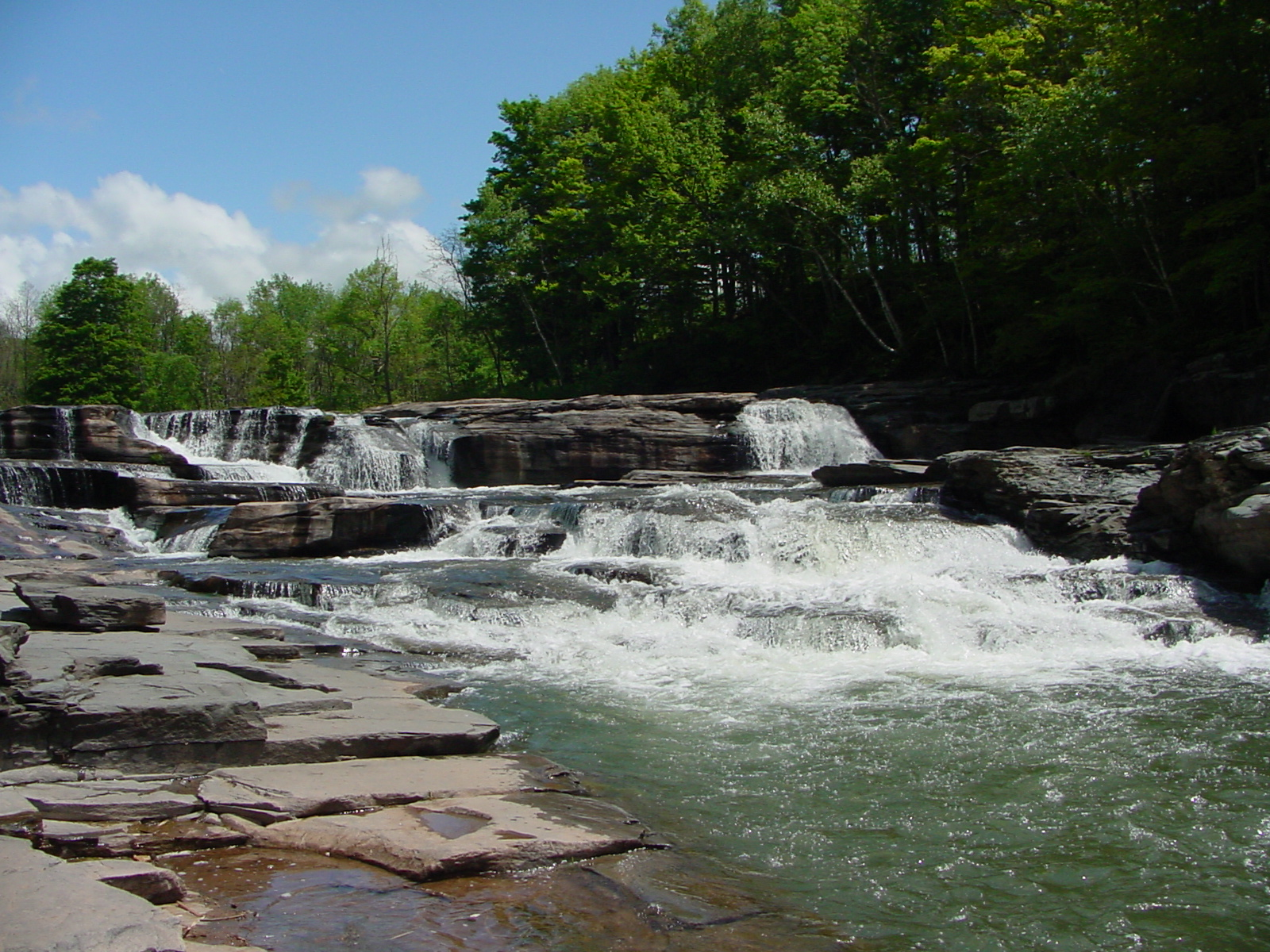 Picture of Red Kill Falls